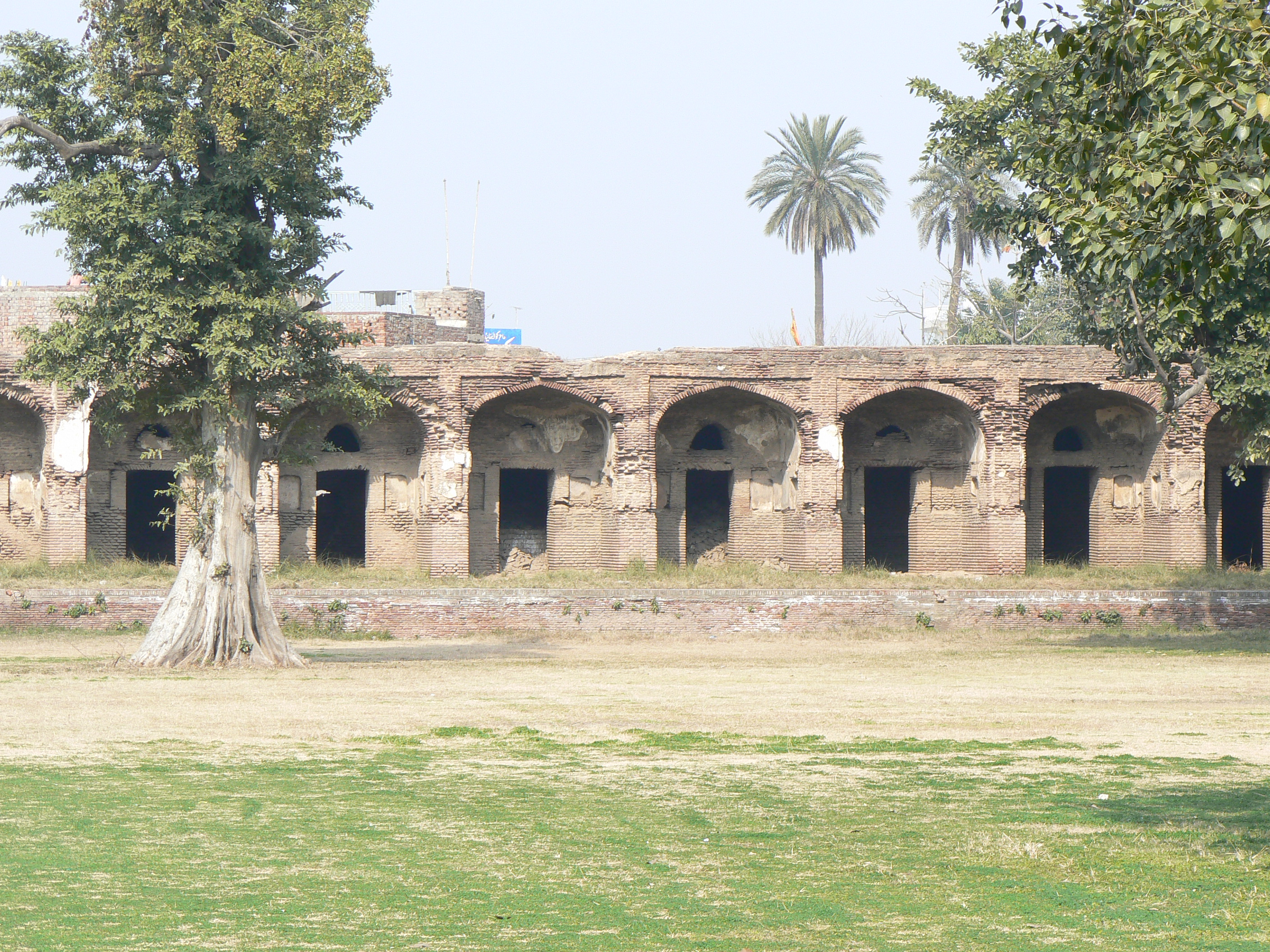 Akbari Sarai in Lahore, Punjab.